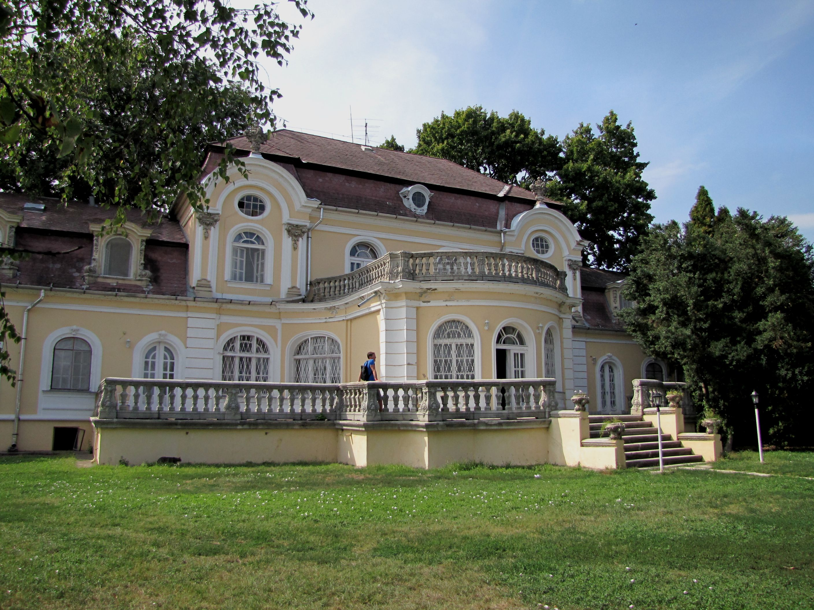 Horthy Mansion, garden facade, Kenderes, Hungary